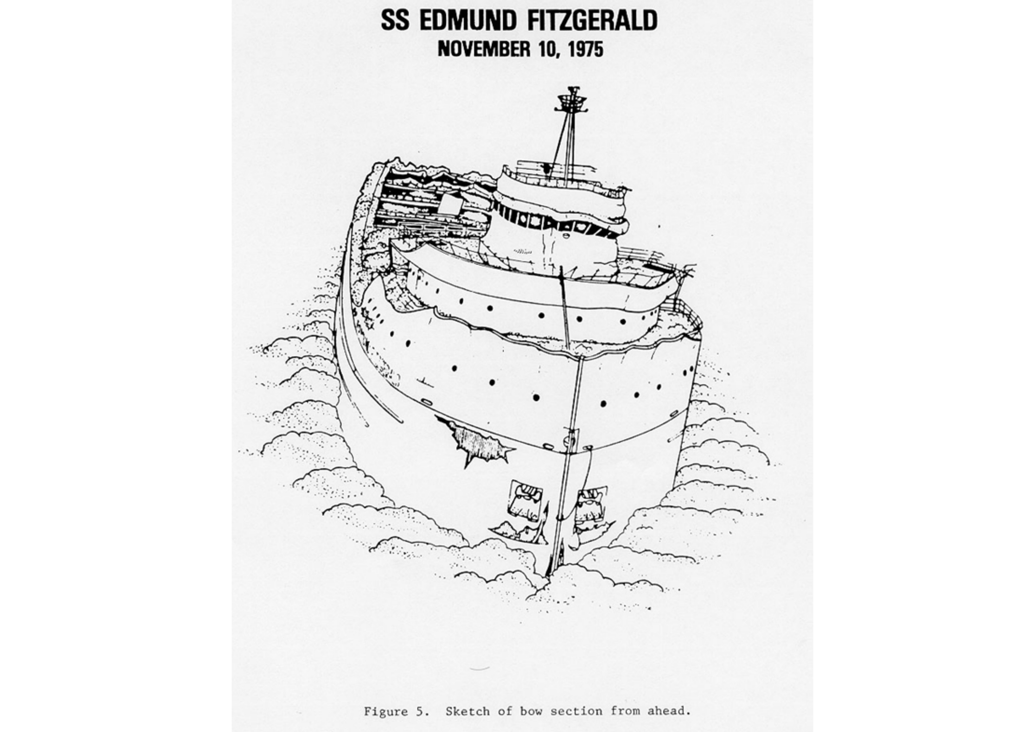 NTSB sketch of Fitzgerald bow section from ahead